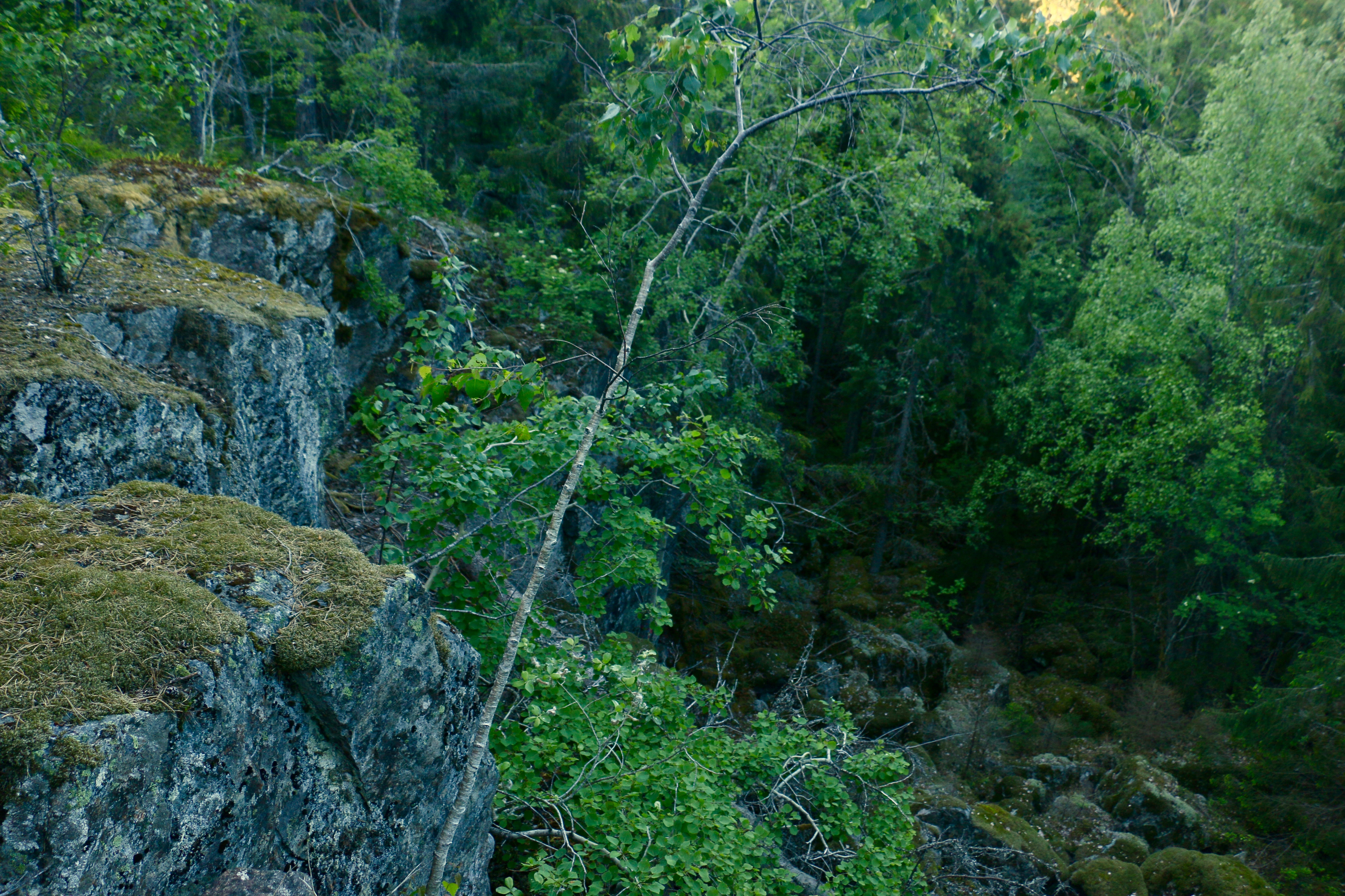 Cliffs near the lower view point of Garpyttan national park